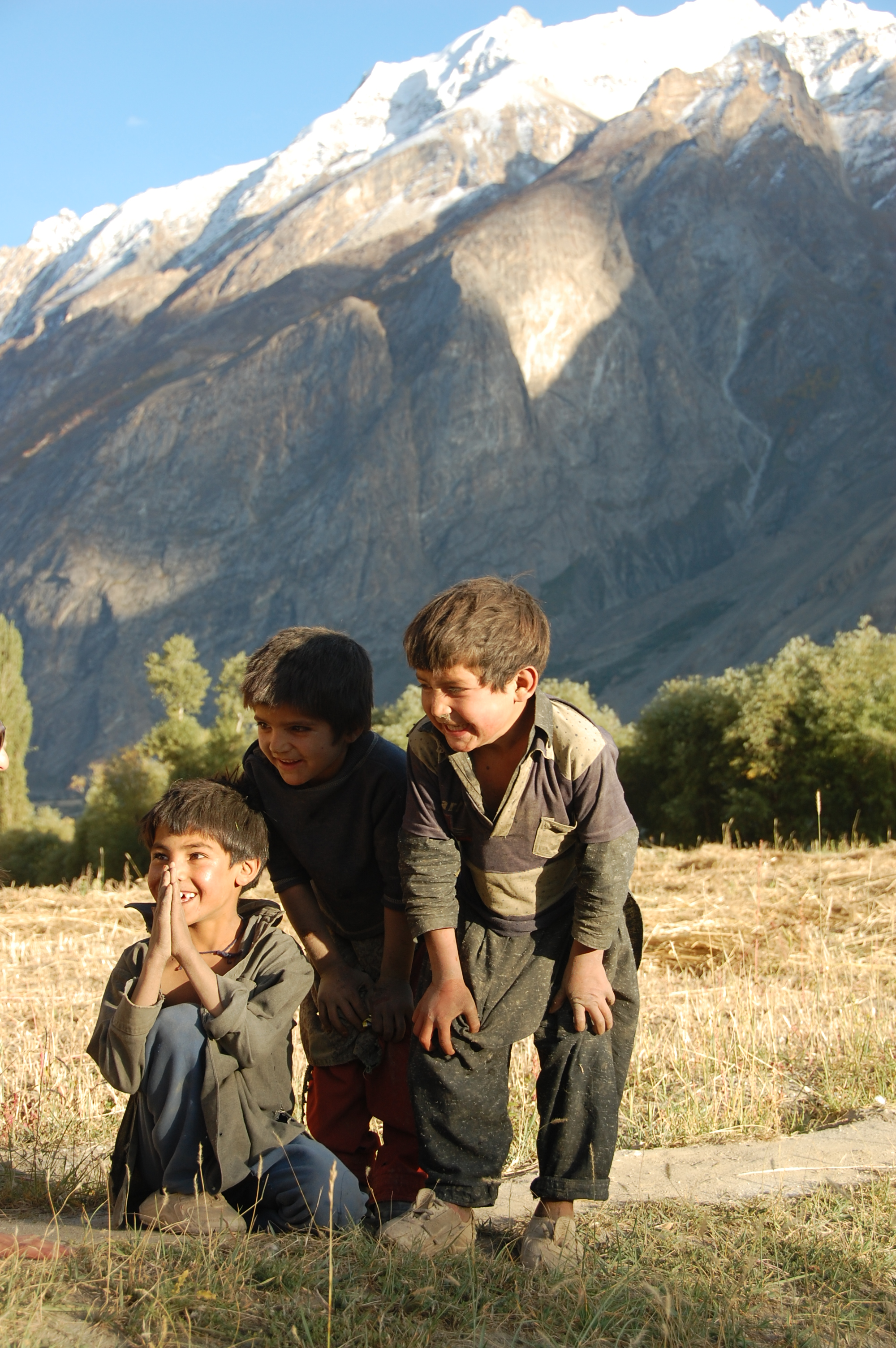 can we play?